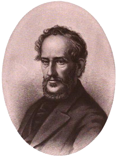 Portrait of John Howard Payne.